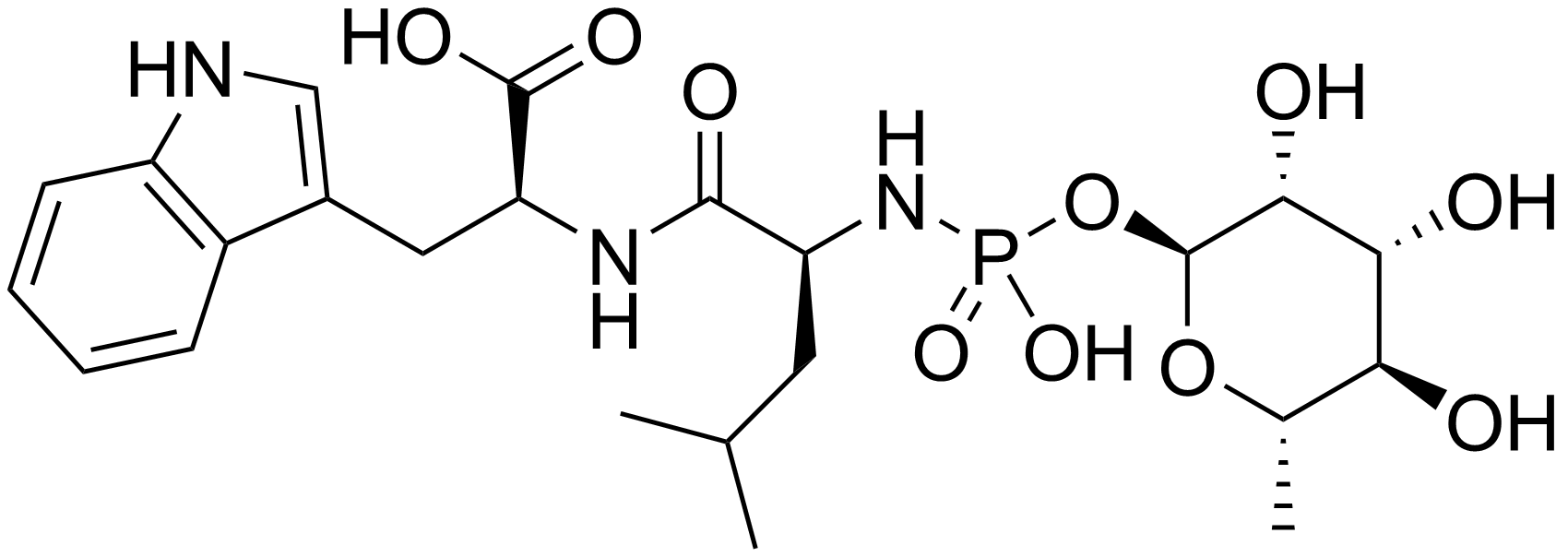 Chemical structure of Phosphoramidon